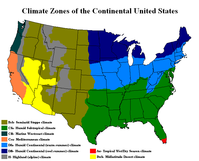 Climate zones of the United States.